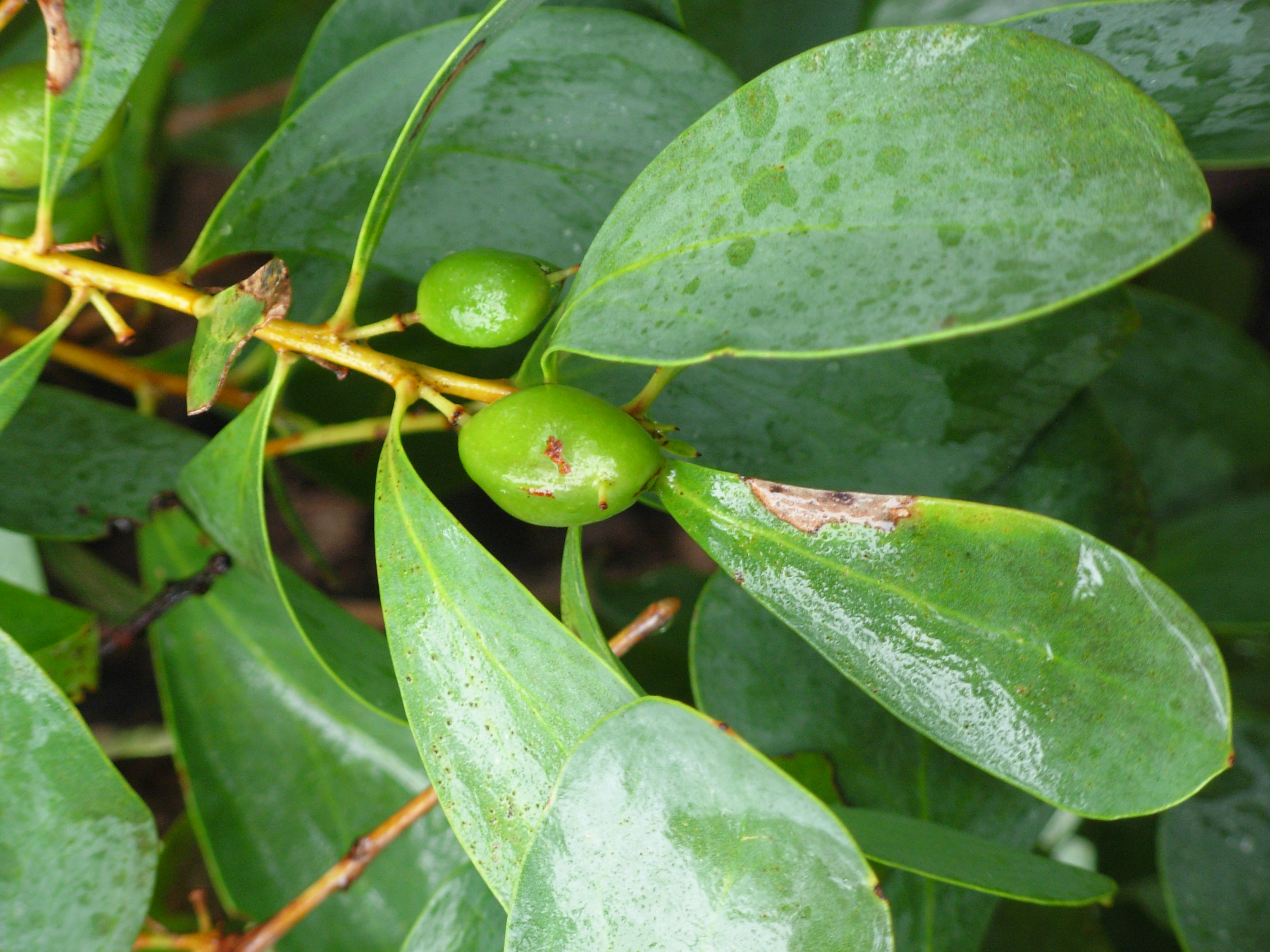 Persoonia elliptica in Strettle Road Reserve, Glen Forrest, Western Australia